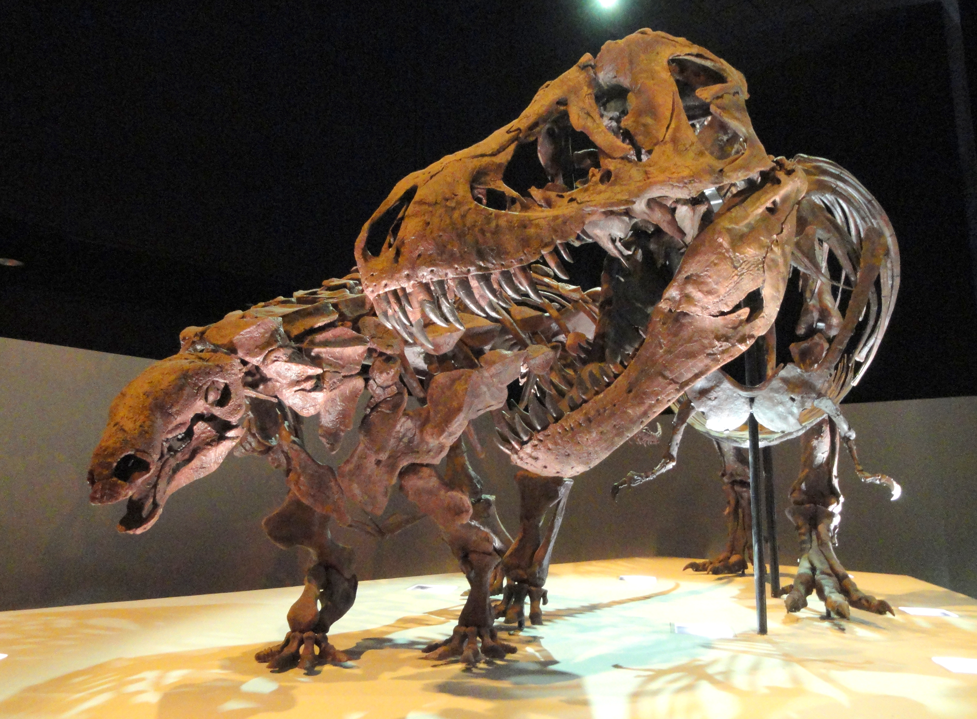 "Wyrex" and Edmontonia schlessmani. Exhibit in the Houston Museum of Natural Science, Houston, Texas, USA.